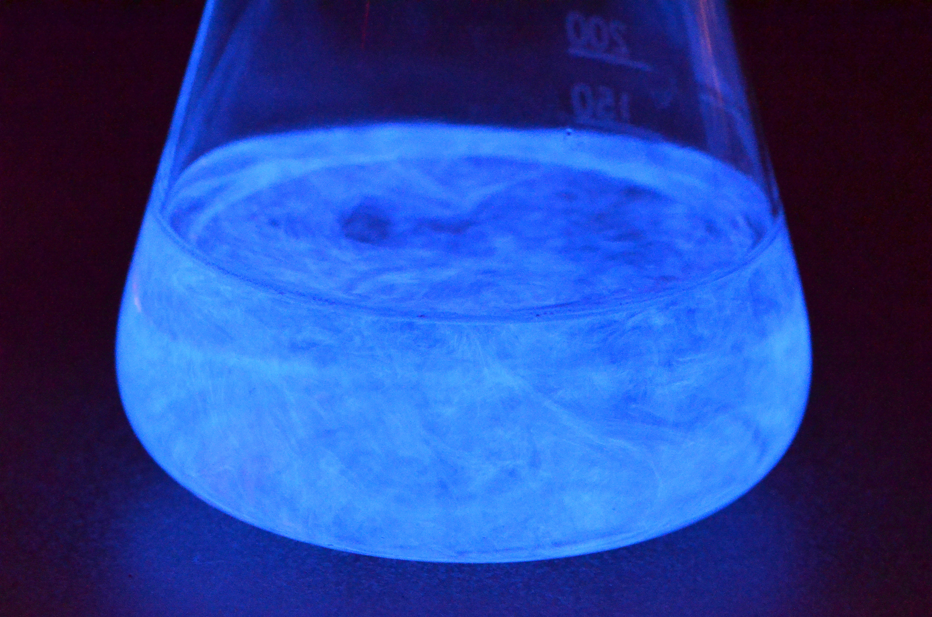 Chemiluminescence is accompanied by reaction of hydrogen peroxide and luminol. This is an image from video .